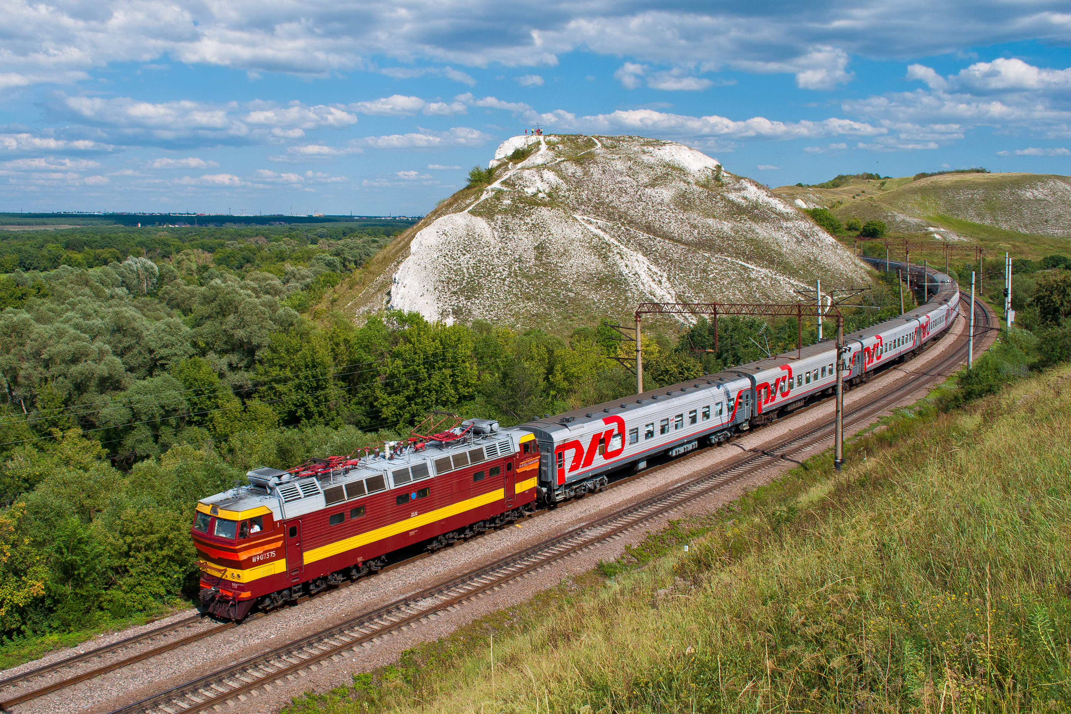 Shatrishche Hill and ChS4T locomotive, Voronezh Oblast, Russia This image is related to the protected area of Russia number 3610328